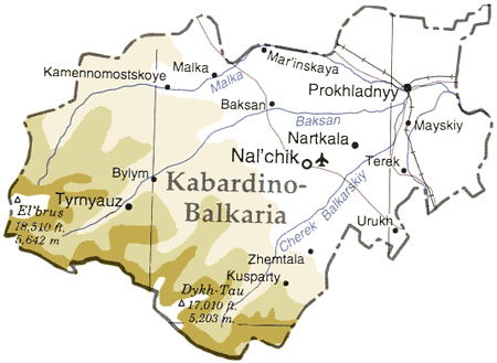 Map of Kabardino-Balkaria, Russia Category:Caucasus maps Category:Maps of the Russian republics